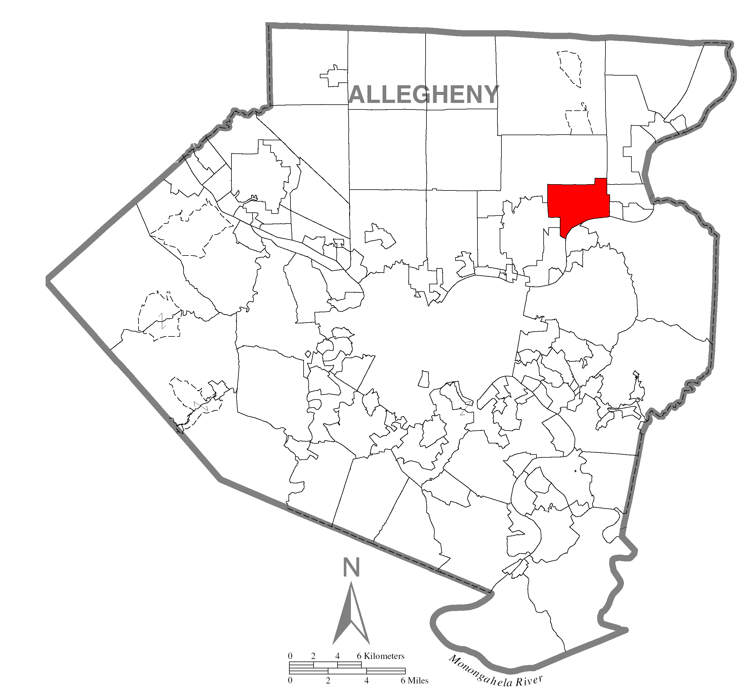 A map of Allegheny County showing Harmar Township, Pennsylvania (alternate) highlighted on the map.